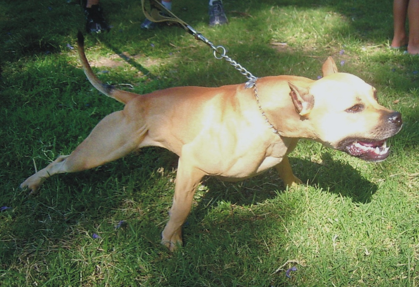 American pit bull terrier buckskin named Perla